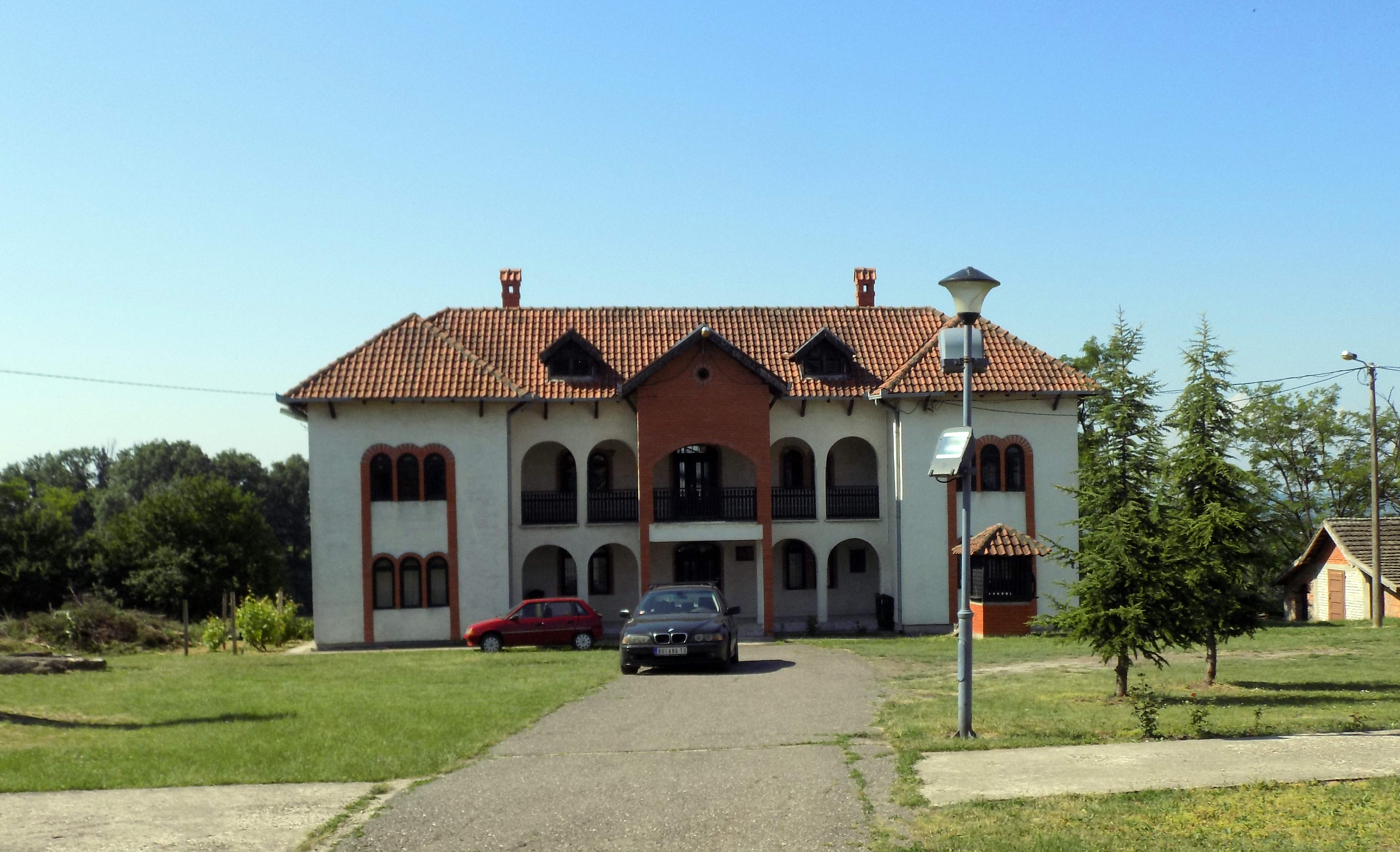 Elijah the Prophet church in Vranić (Barajevo, Municipality of Belgrade, Serbija) - Memorial museum